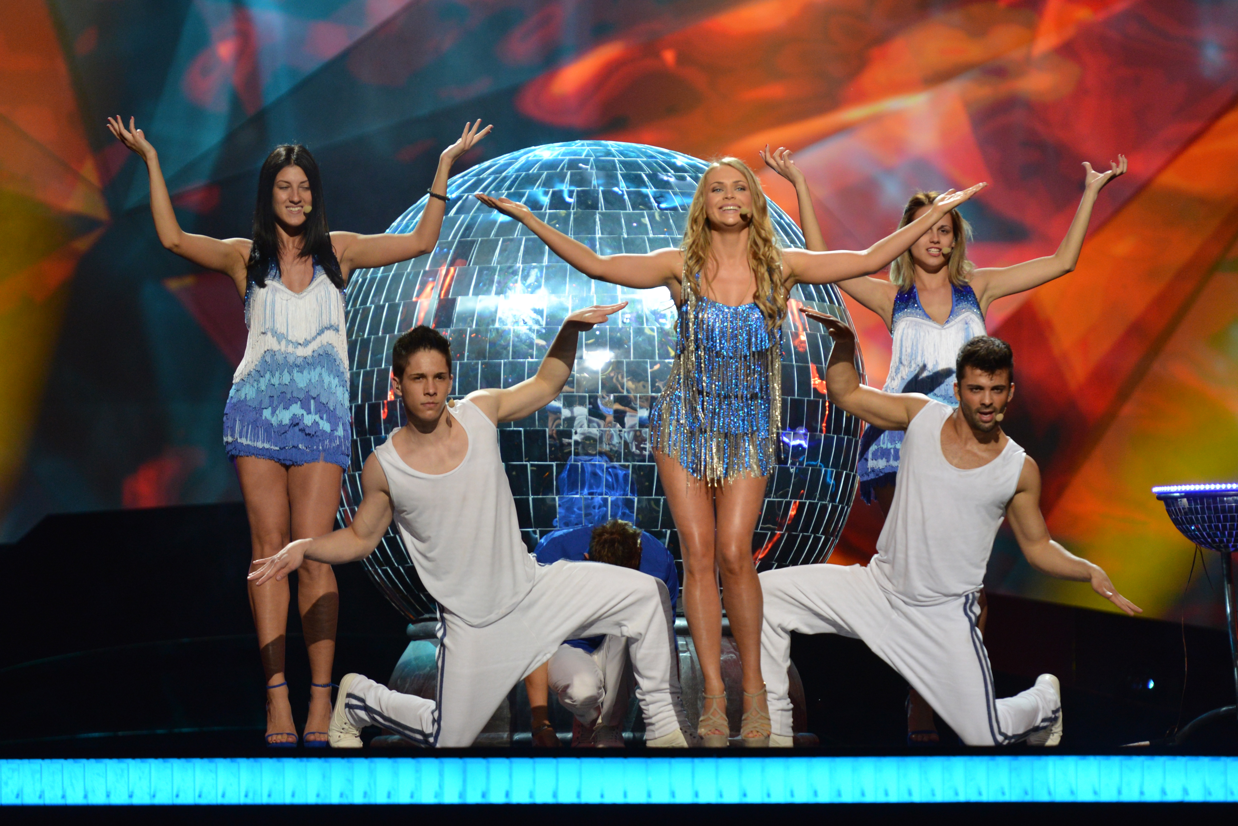 Alyona Lanskaya representing Belarus with the song "Solayoh" during the first dress rehearsal of the first semi final of the Eurovision Song Contest 2013 in Malmö. (Help translate this text)